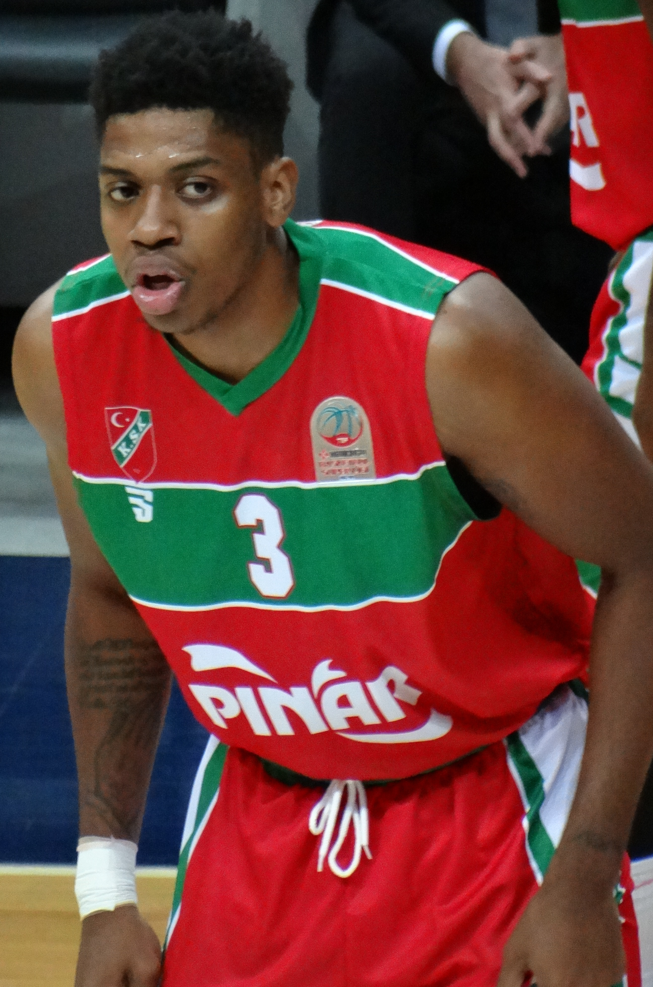 Kameron Chatman 3 Pınar Karşıyaka TSL 20181204